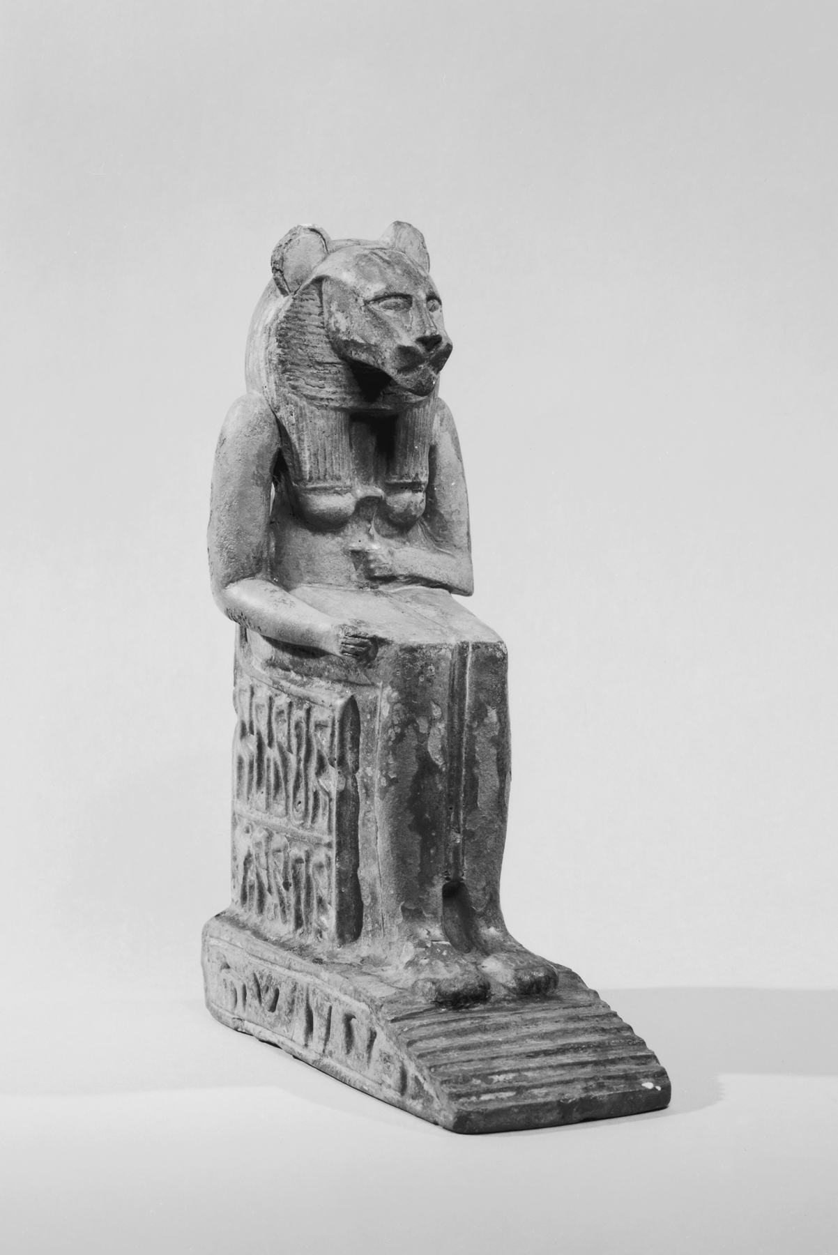 The cat-goddess Bastet could be depicted with the head of a lioness, adding an extra potency to her protection. The inscriptions indicate that this enthroned figure of the goddess was a New Year's gift, given to celebrate the beneficial annual flooding of the Nile River.